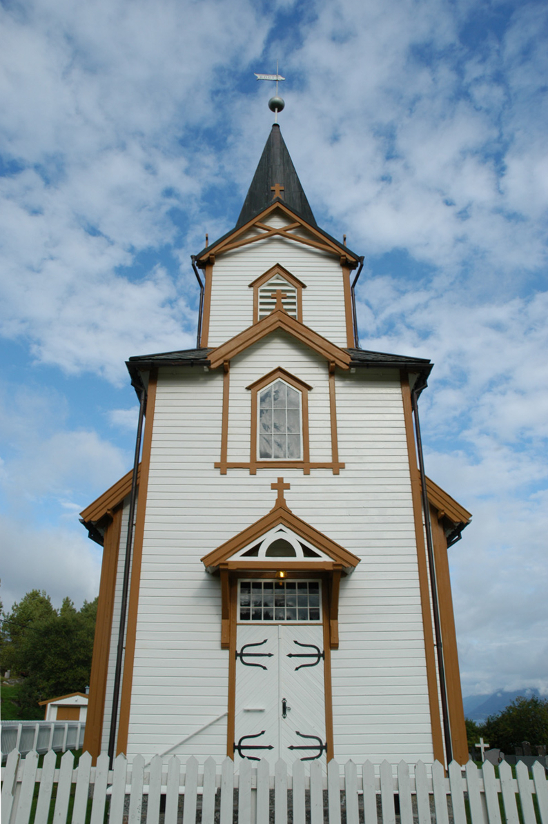 Western view of Sekken church